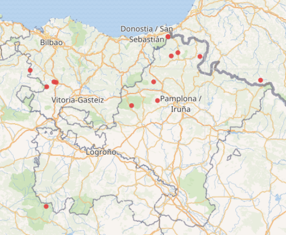 Map of 11 waterfalls in Basque Country (Wikidata, 2019-04-25) Query: Query